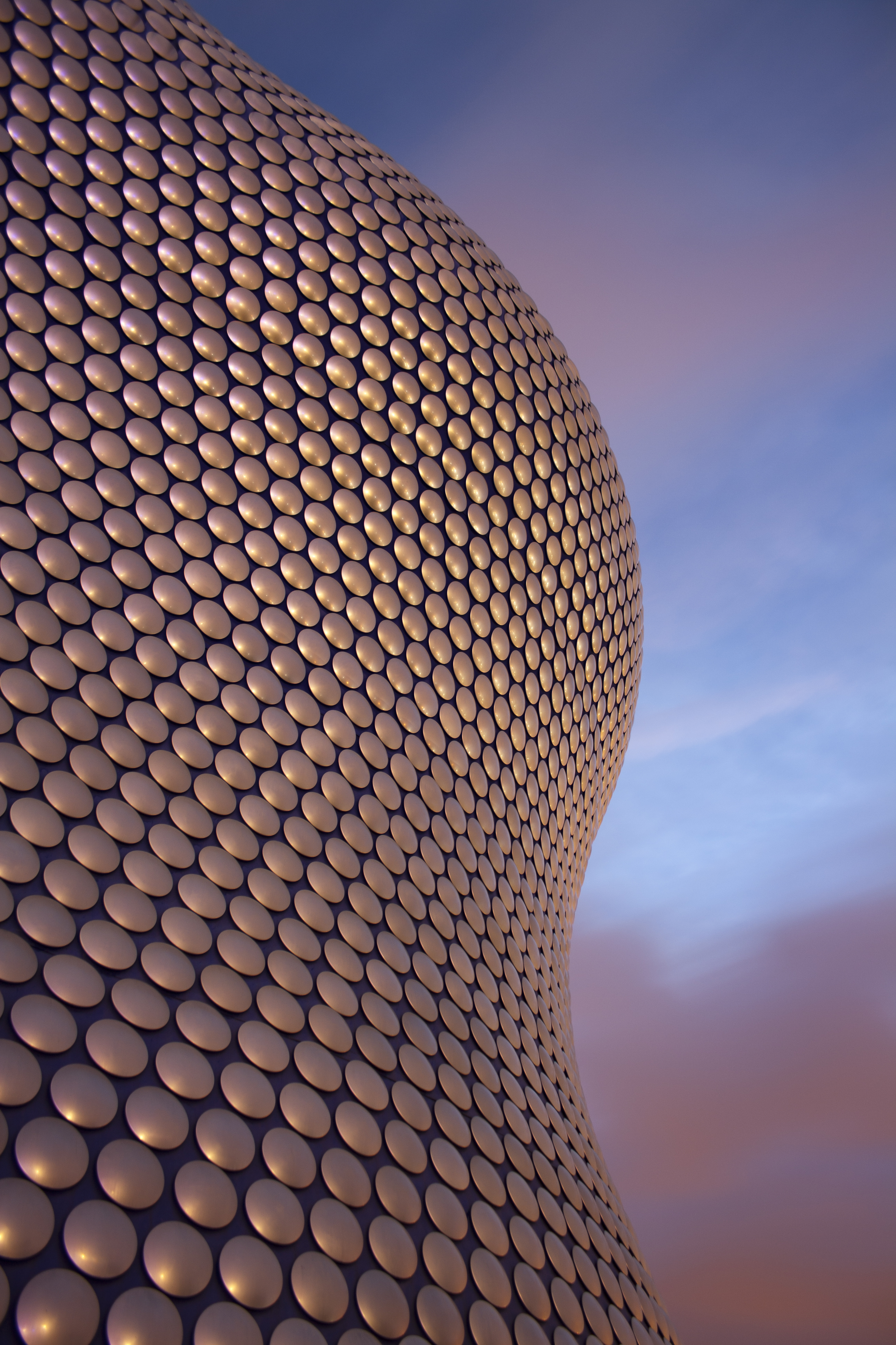 A Picture of Selfridges, Birmingham in the morning